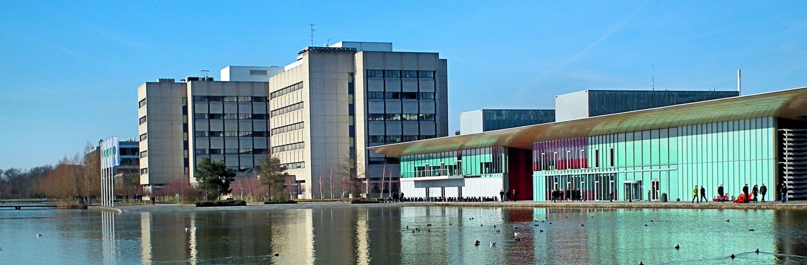 High Tech Campus Eindhoven (The Netherlands) - The smartest place on earth. This picture is presented to you by